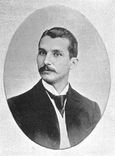 Francisco Lazo Martí (1869-1909), Venezuelan poet.